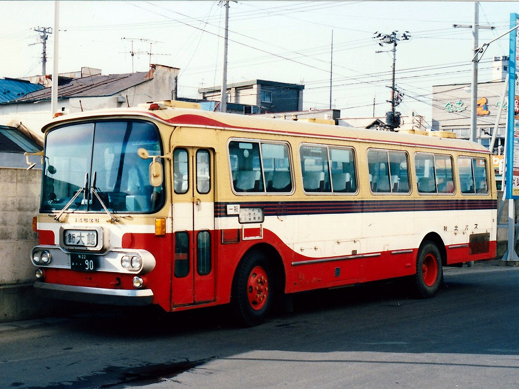 Shuhoku bus Isuzu BU10KP (Kawasaki body sightseeing type) Express bus "Odate-Hirosaki"